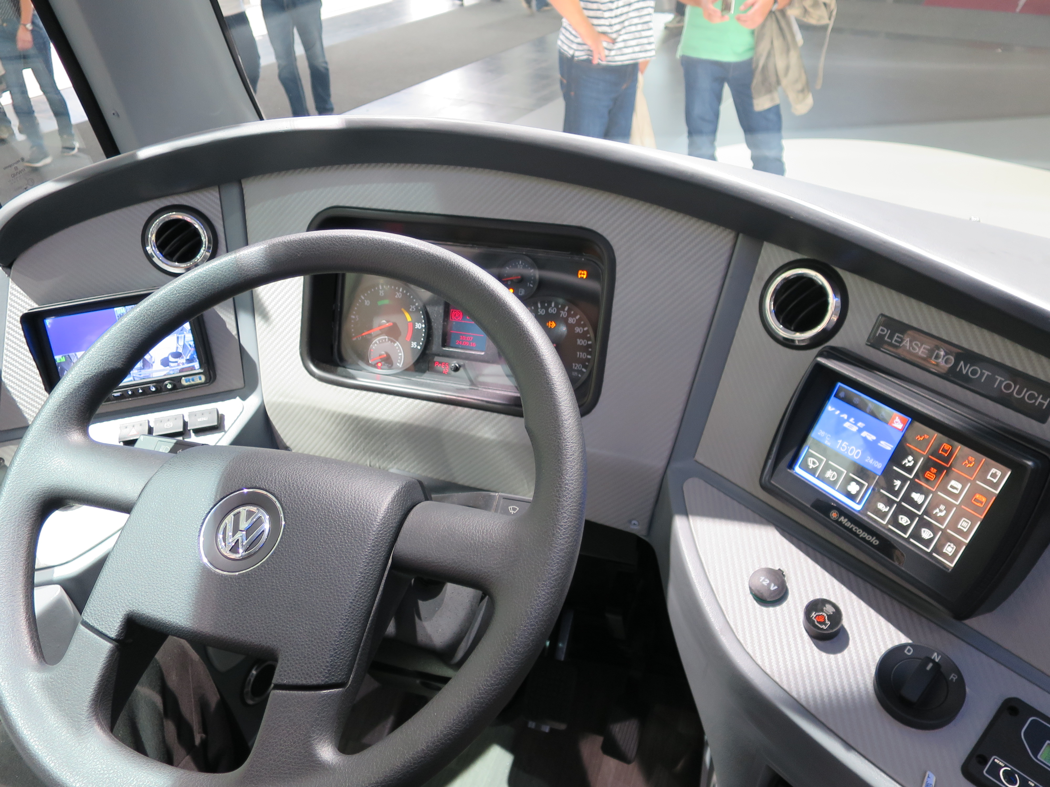 The making of this document was supported by Wikimedia Polska Association, within Wikigrant no. WG 2016-35. Volksbus 18.280 OT LE